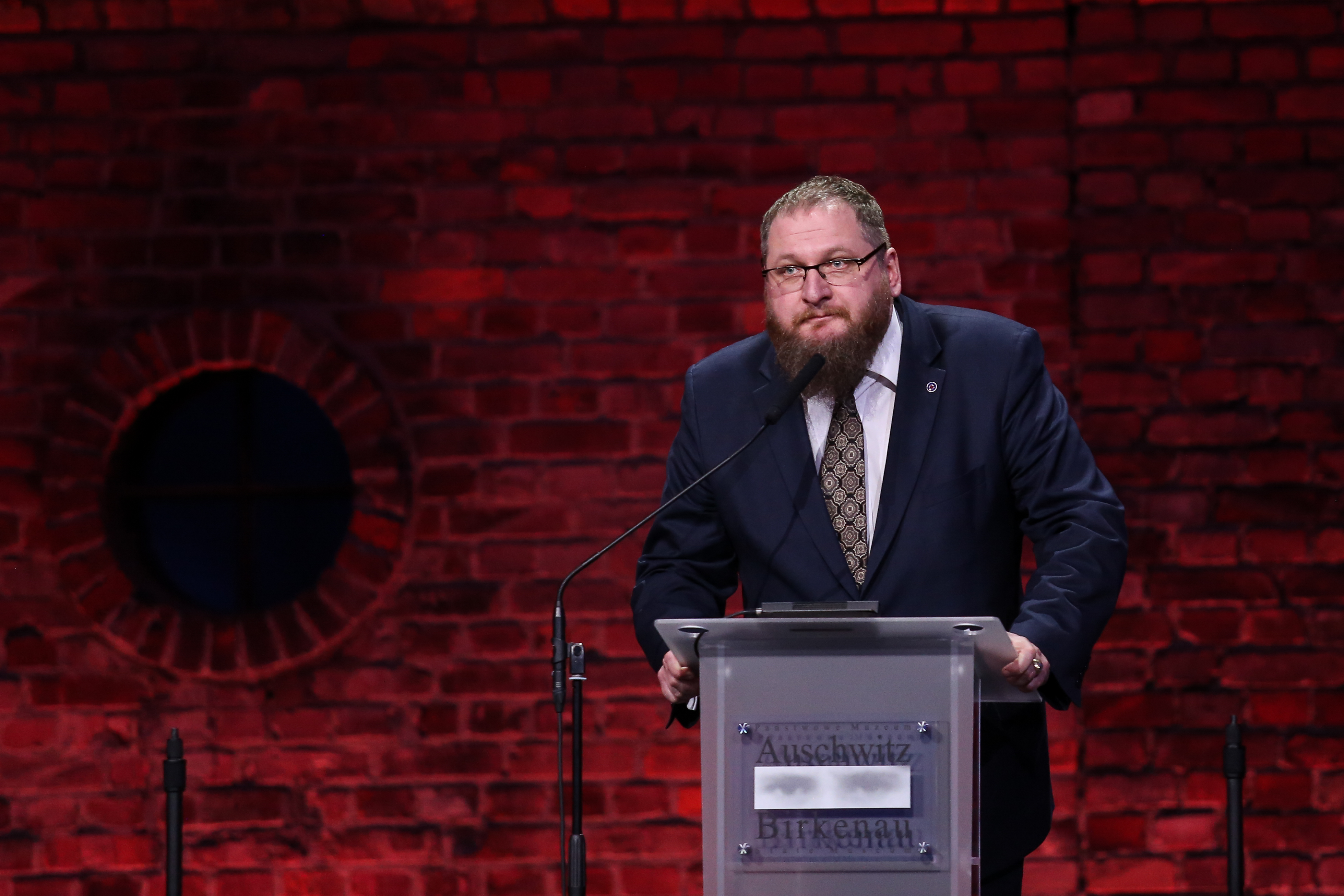 Dr. Piotr M. A. Cywiński, the director of the Auschwitz Memorial and Museum at the 75th anniversary of the liberation of Auschwitz on January 27, 2020